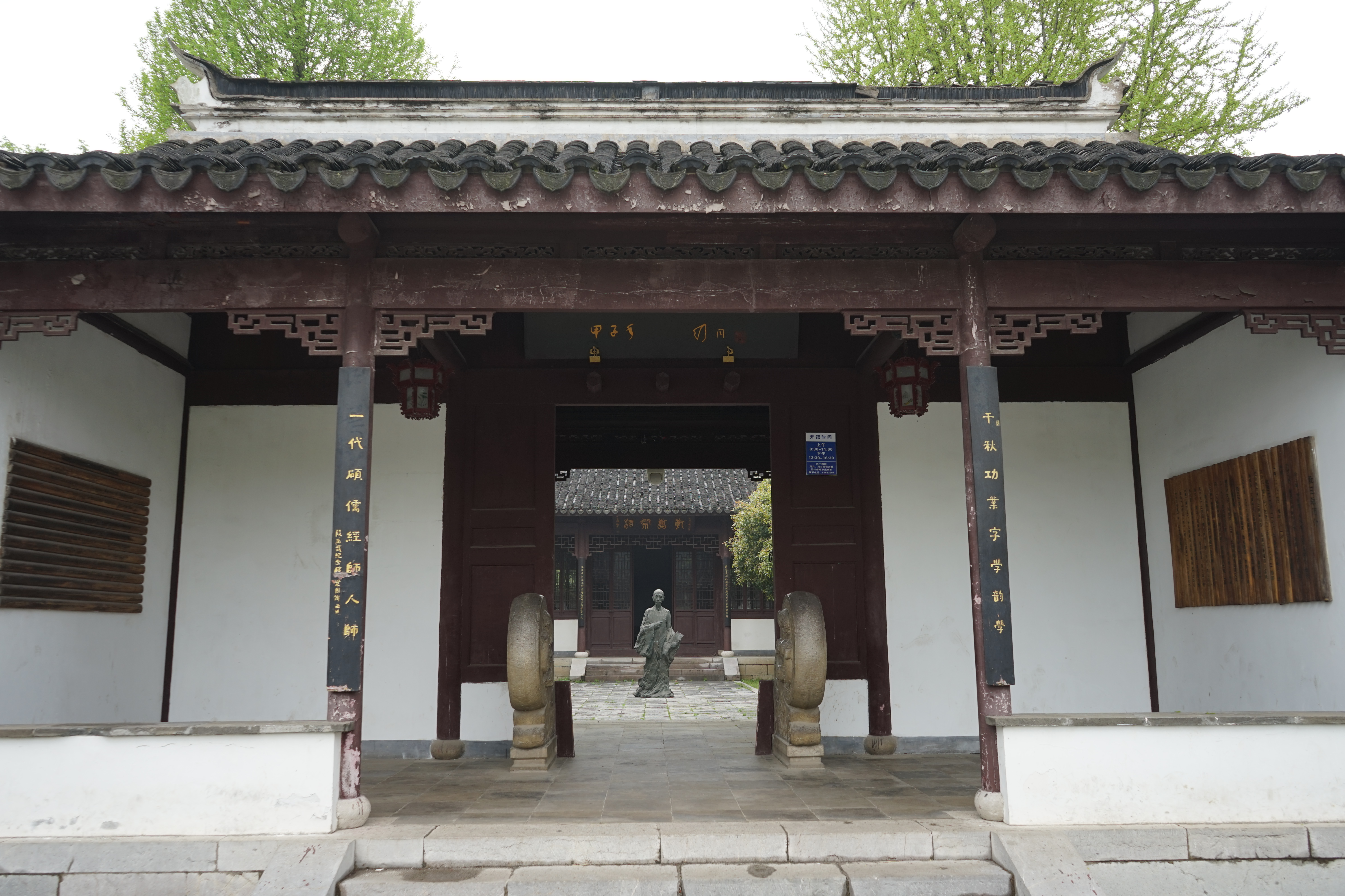 Duan Yucai Memorial